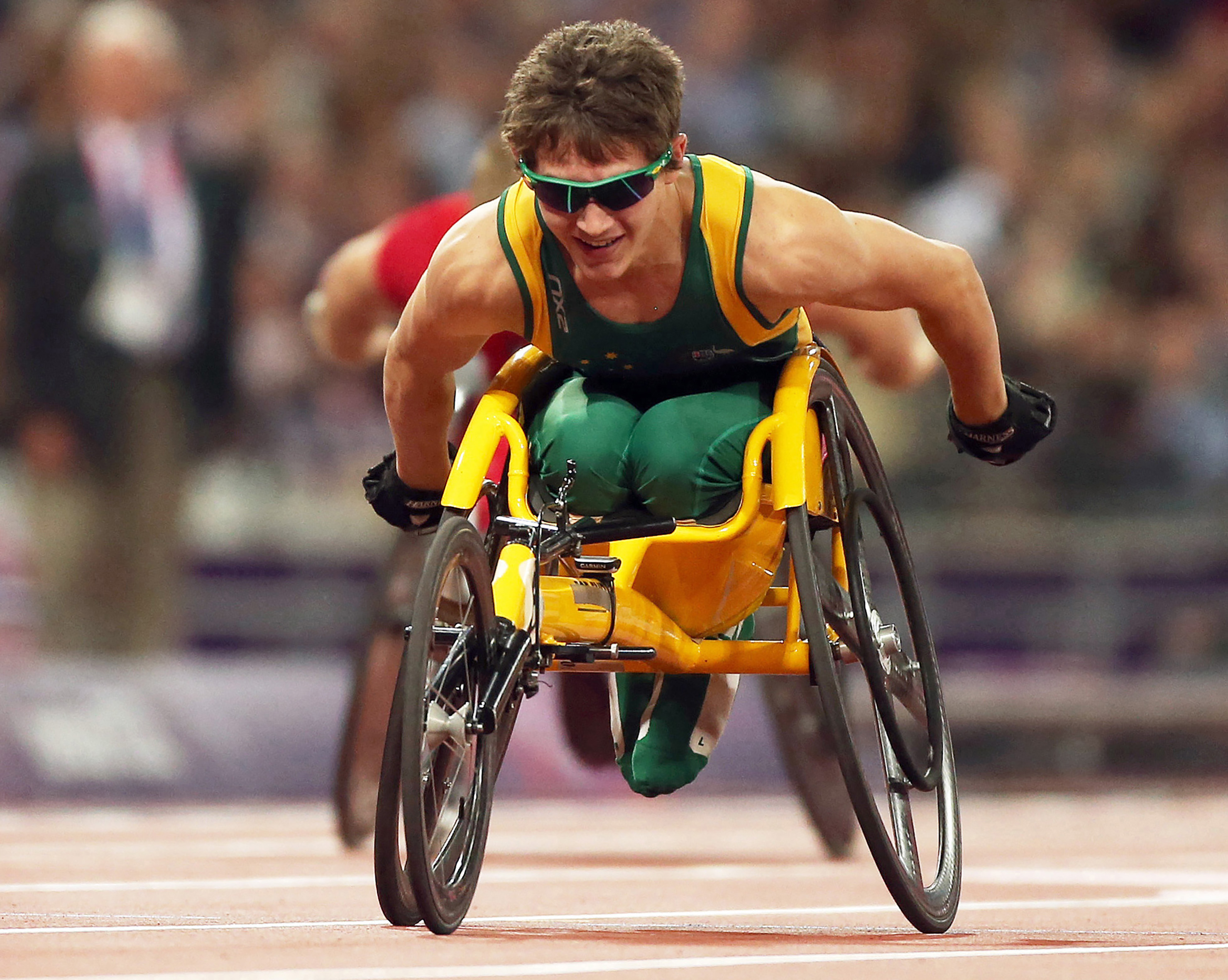 Photograph of Australian Paralympic team member Rheed McCracken at the 2012 Summer Paralympic Games in London